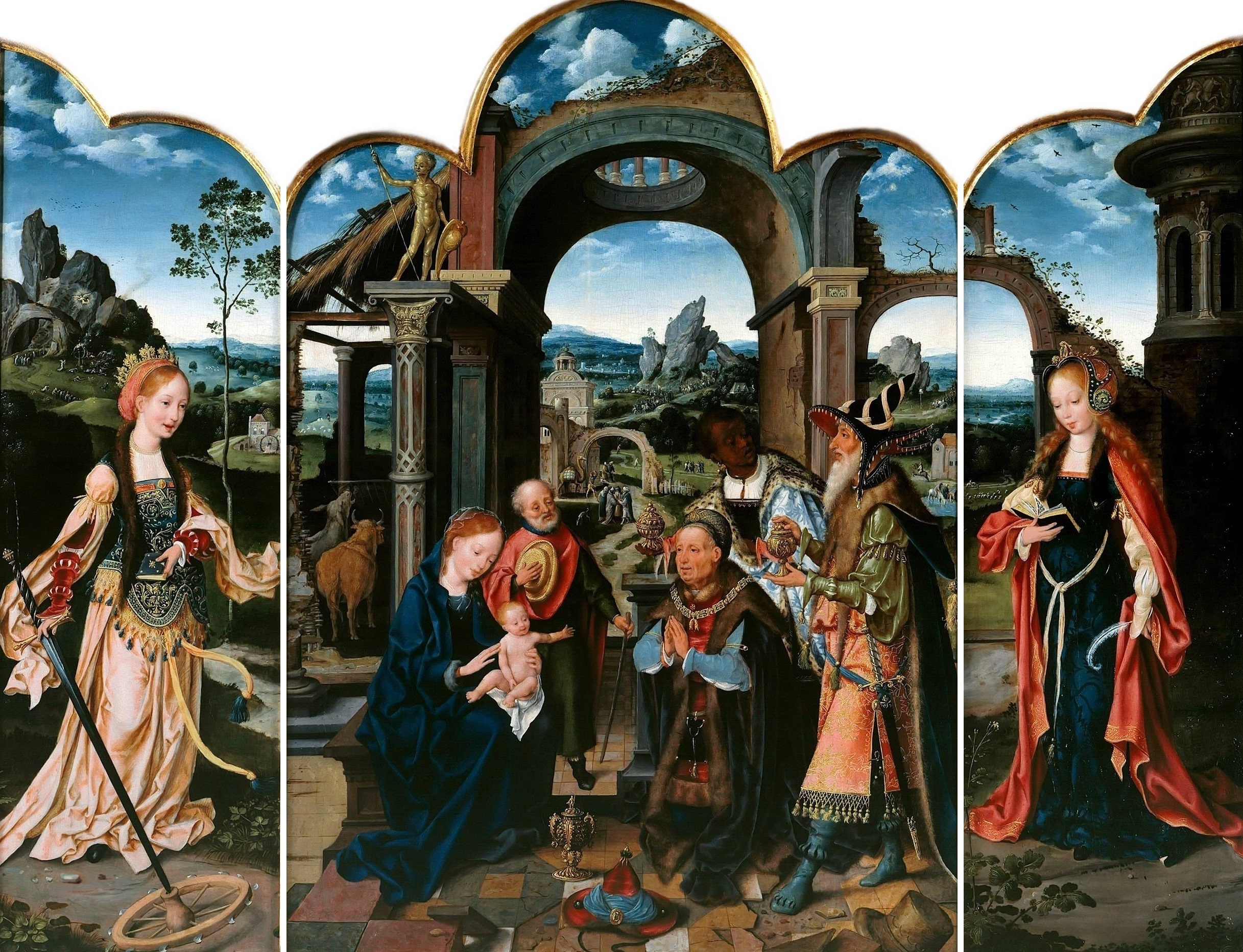 left panel: Saint Catherine of Siena, right wing: Saint Barbara, central panel: Adoration of the Magi